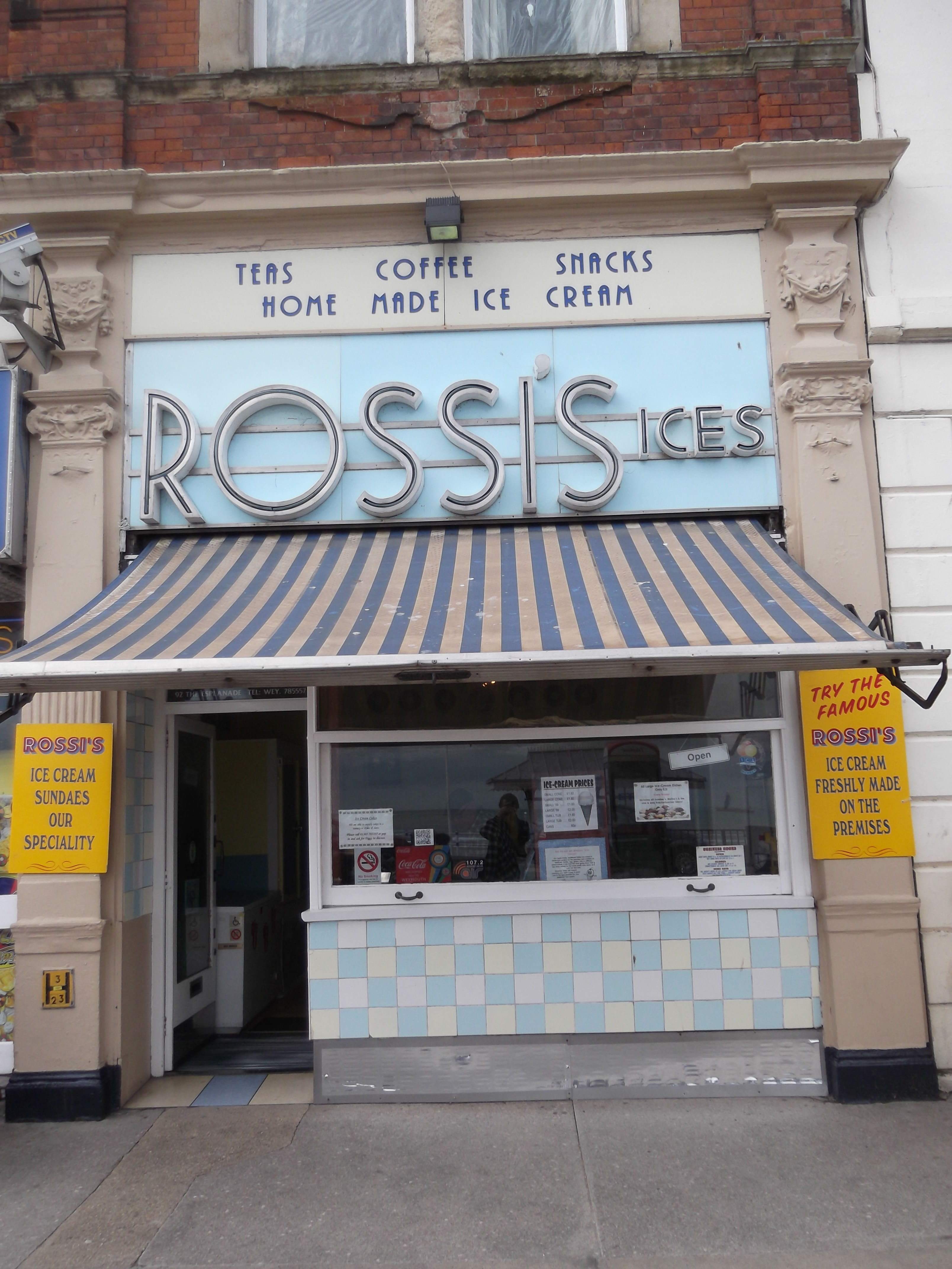 Rossi's Ices in Weymouth, Dorset, England.